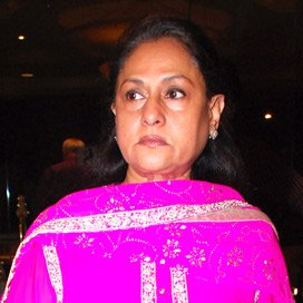 Jaya Bachchan at the V Shantaram Awards